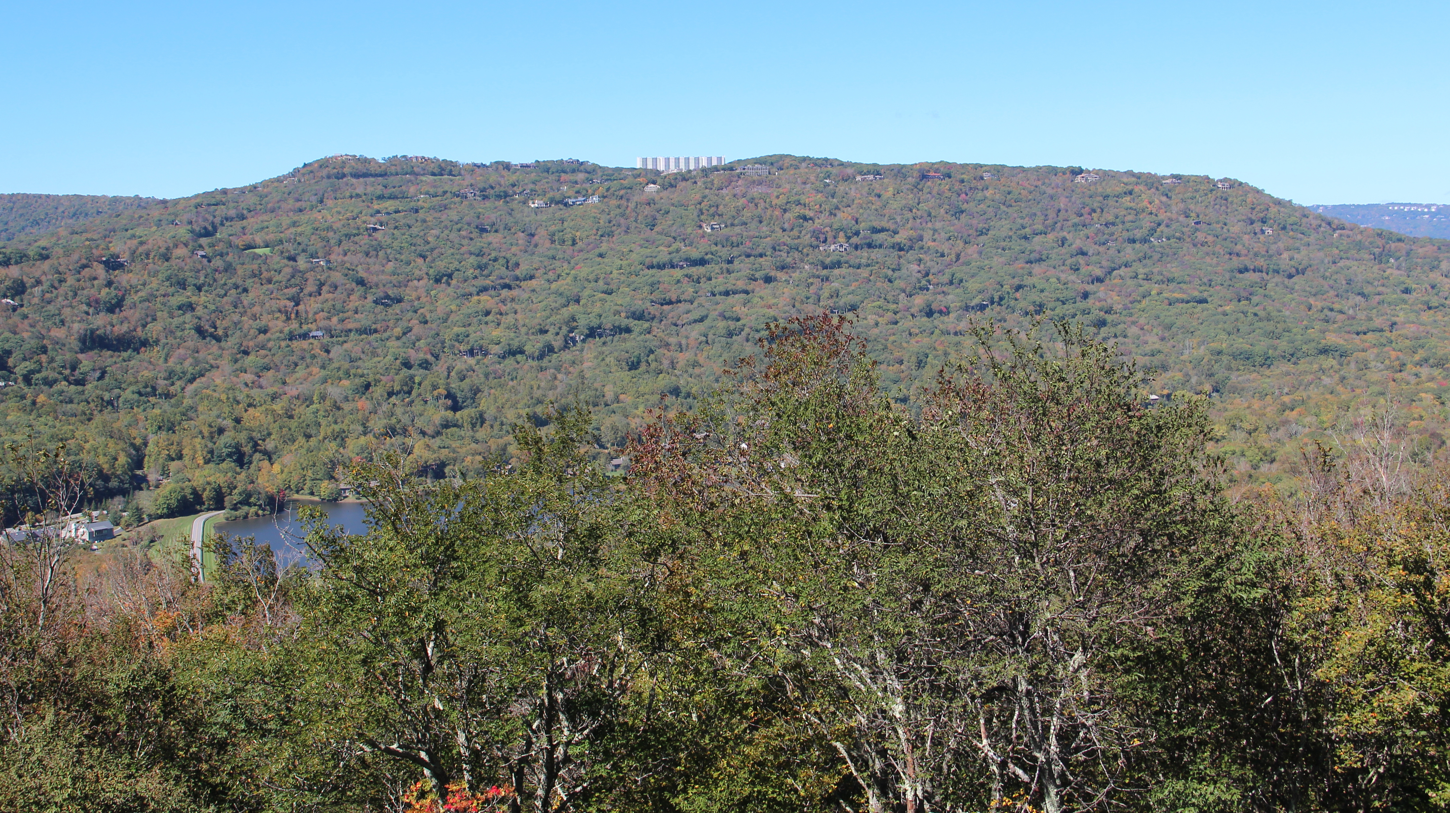 Flattop Mountain viewed from Grandfather Mountain's Half Moon Overlook, October 2016